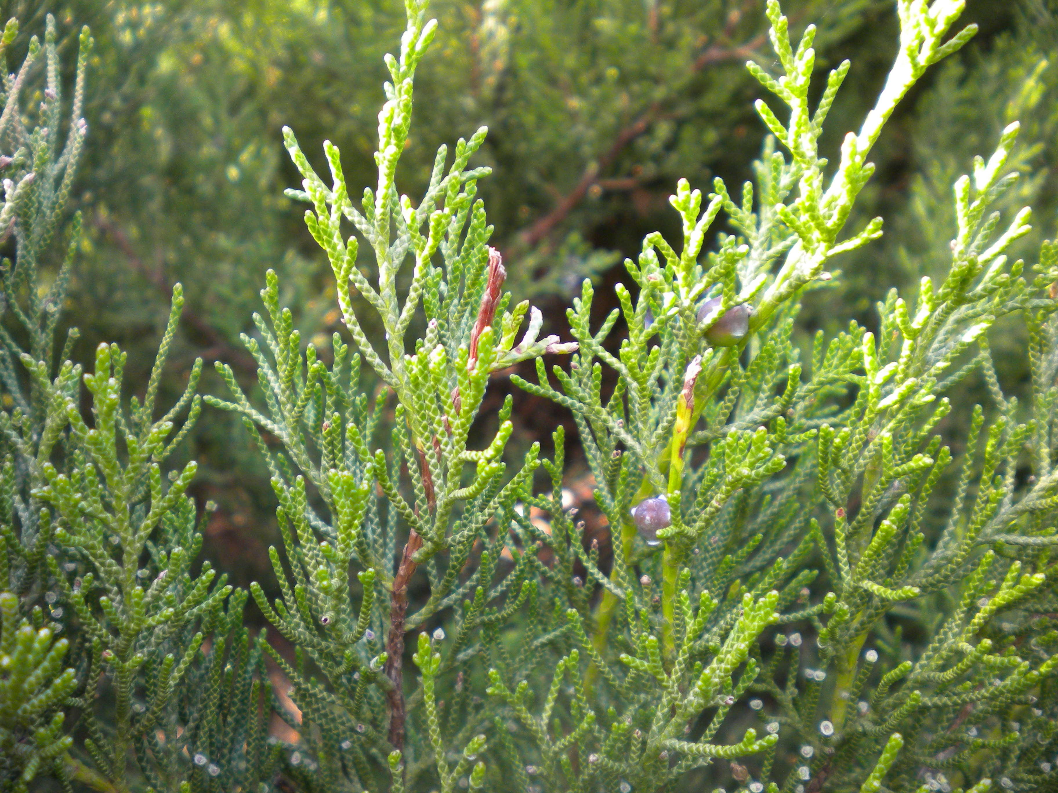 Juniperus phoenicea subsp. turbinata in Matalascañas (Huelva, Spain). Detail of the leaves.